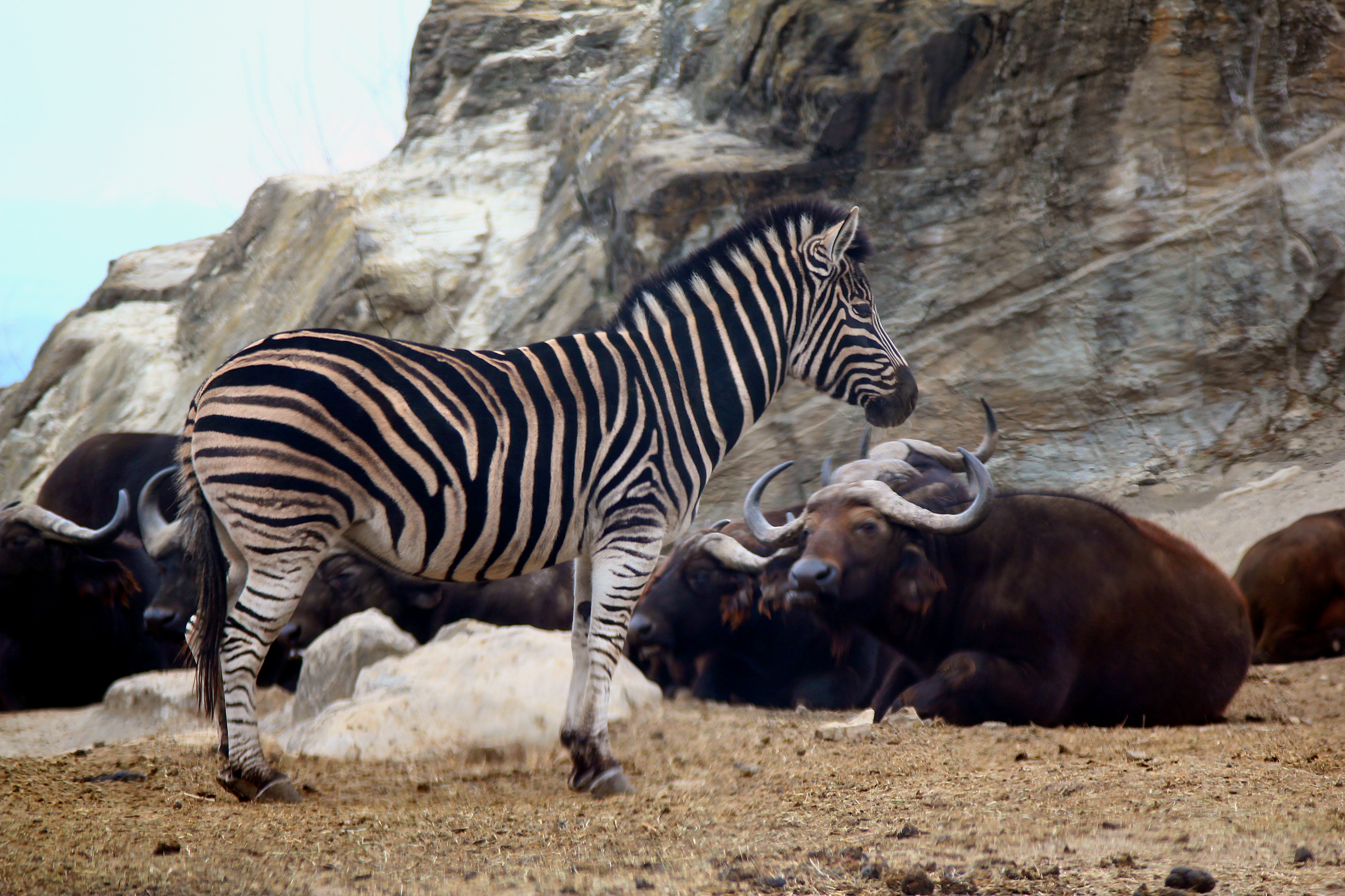 Zebra & African buffalo. Gunma Safari Park. Tomioka-city, Gunma-pref, Japan.